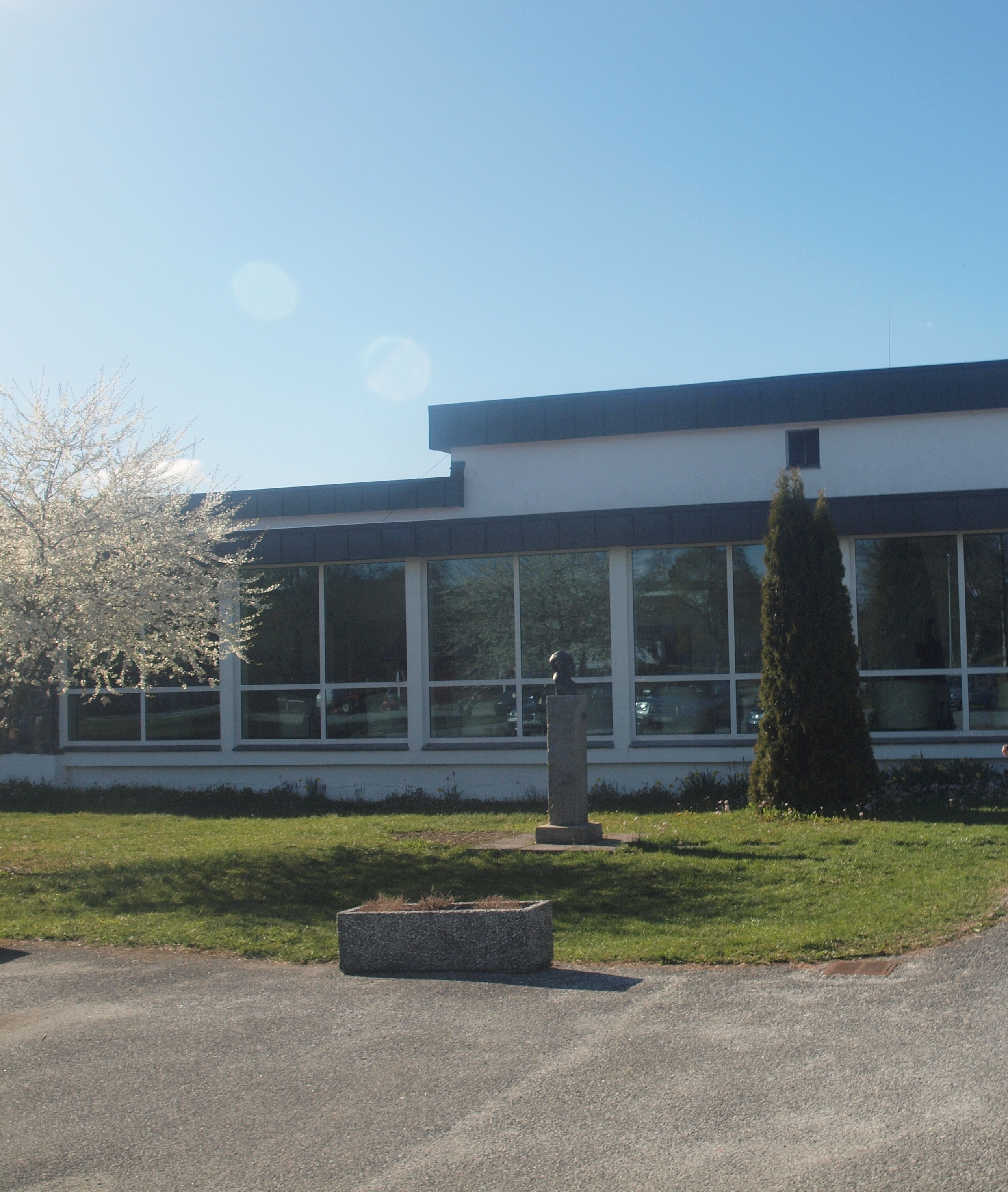 Åsana Folkehøgskole